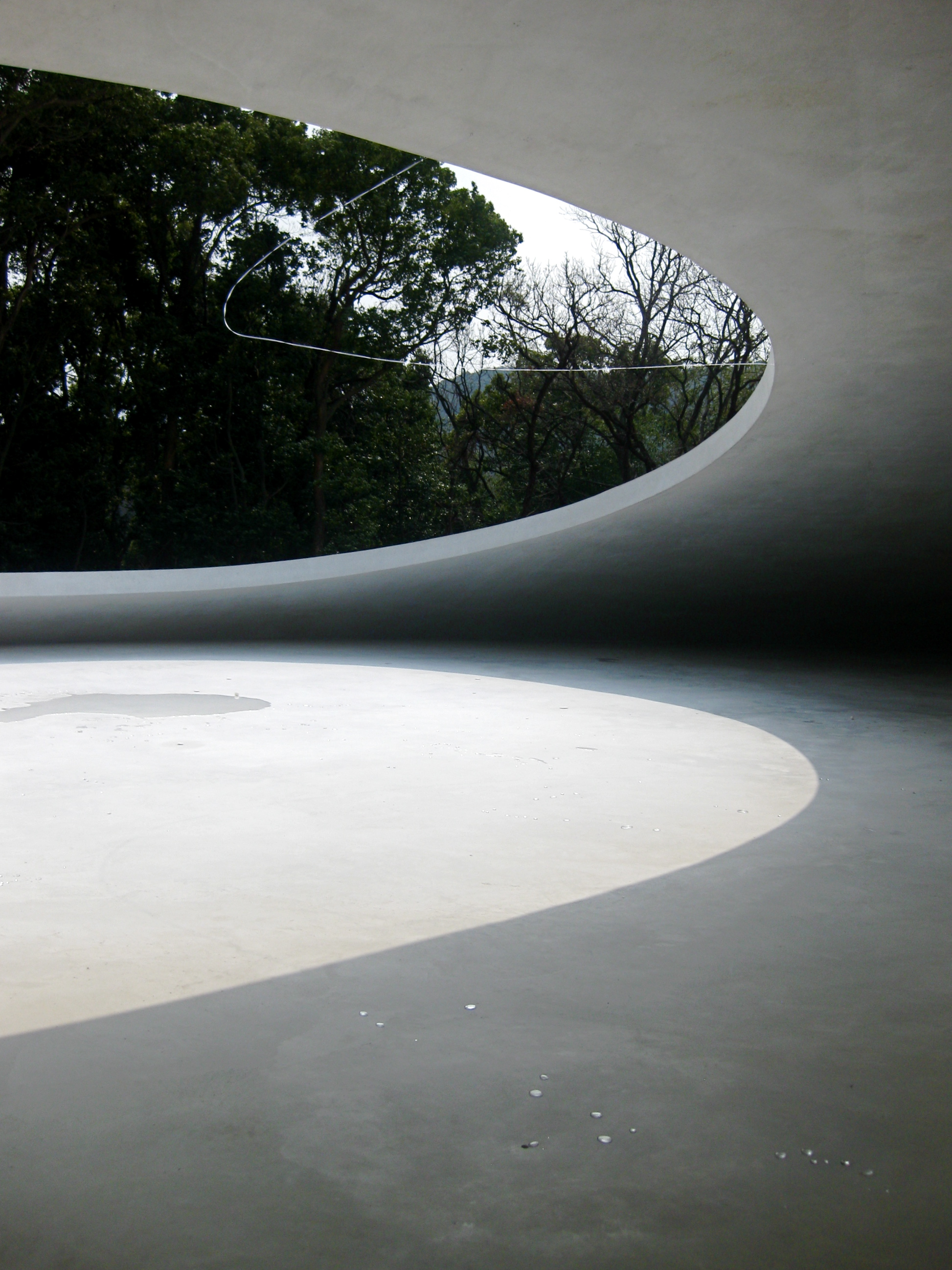 Teshima Museum on Teshima island, Japan by Ryue Nishizawa and Rei Naito